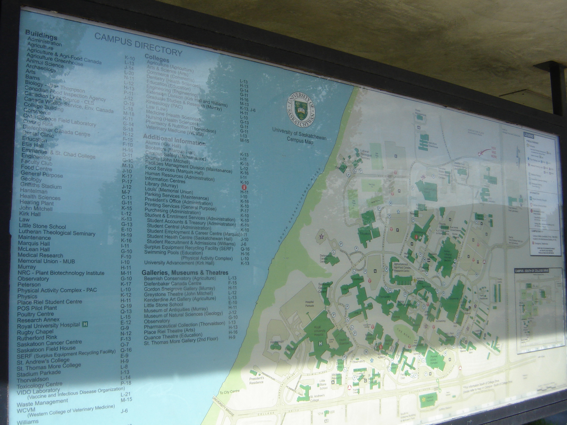 University of Saskatchewan Campus Map U of S Saskatoon Saskatchewan Canada